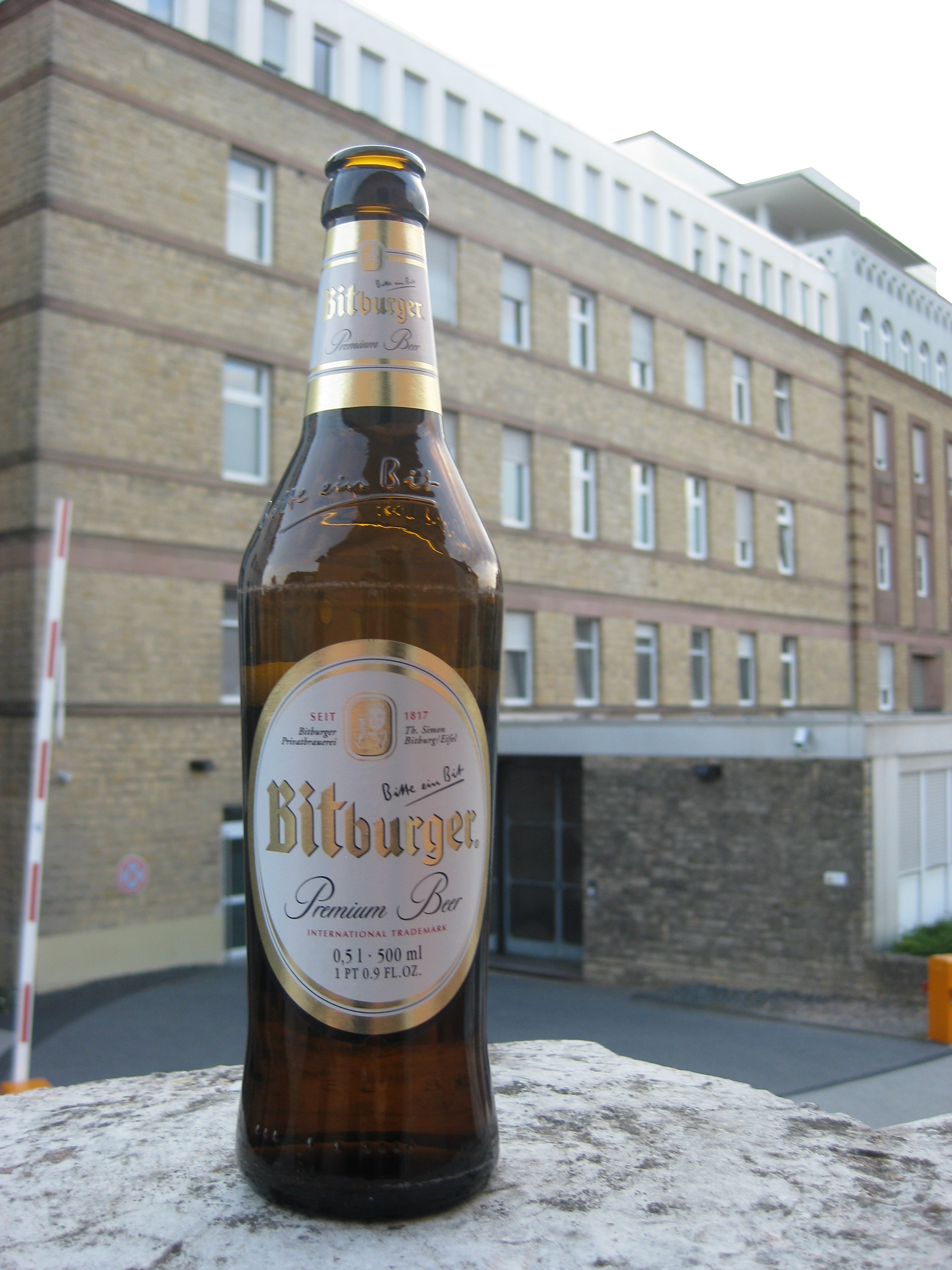 Bitburger Premium Beer